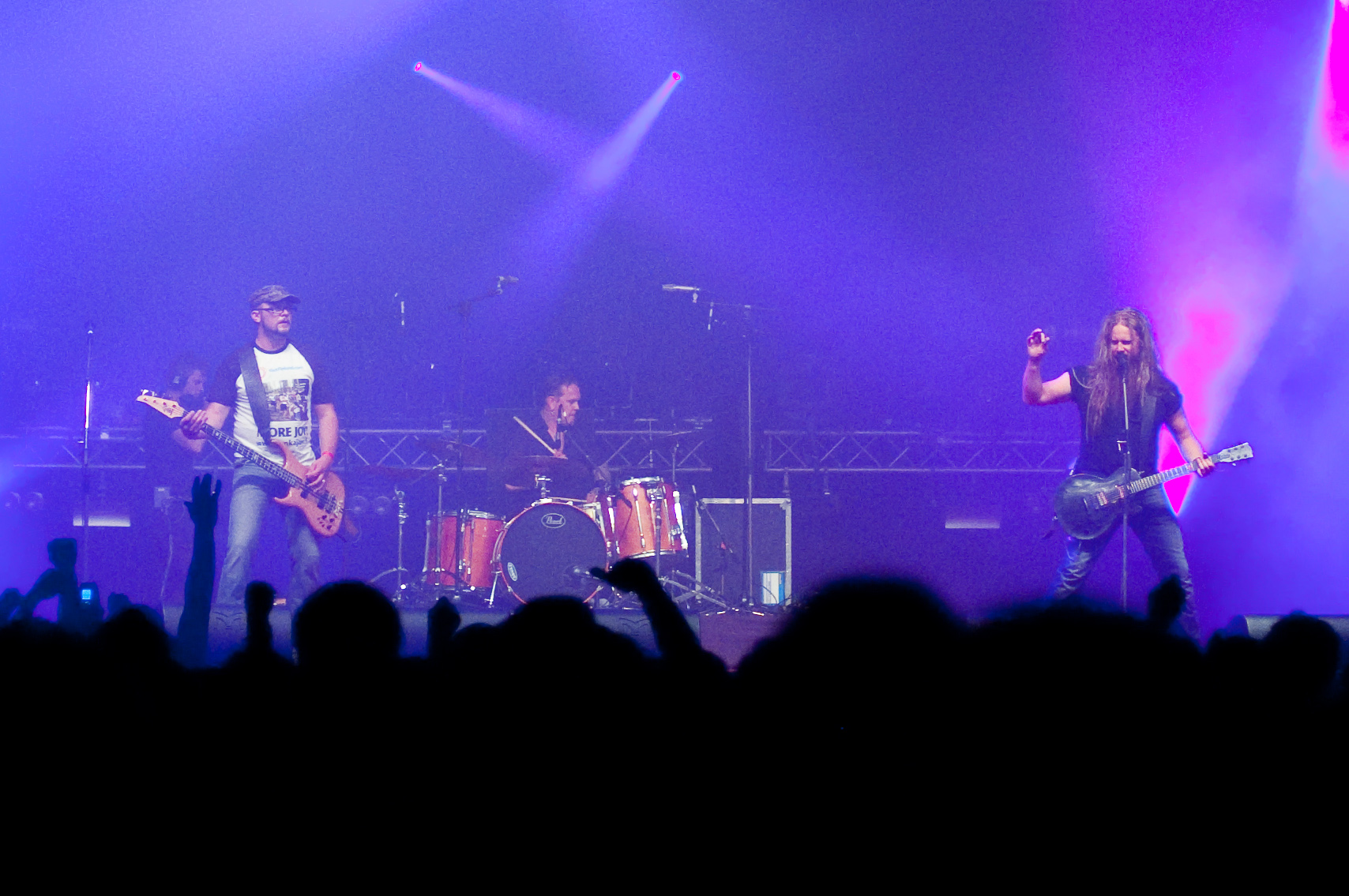 Finnish band Kotiteollisuus performs at the Ilosaarirock festival on the 11th of July 2008 in Joensuu, Finland.